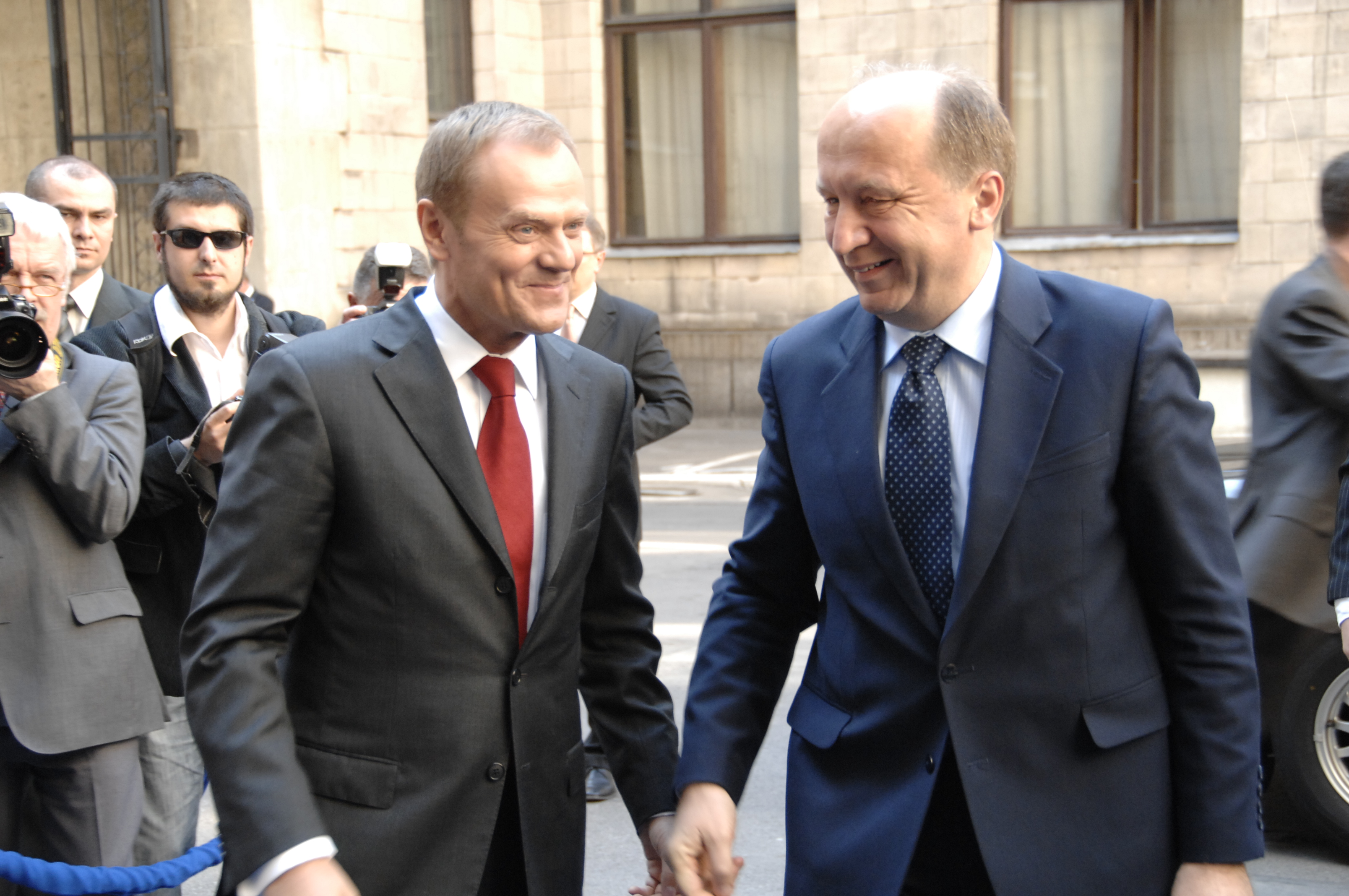 EPP Congress Warsaw